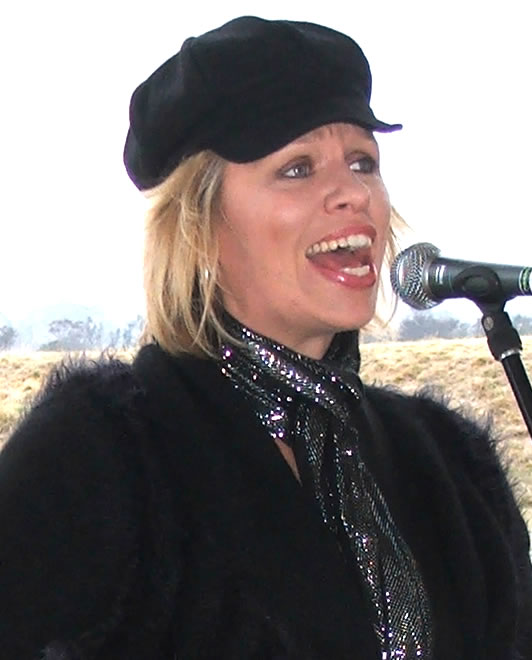 Beccy Cole